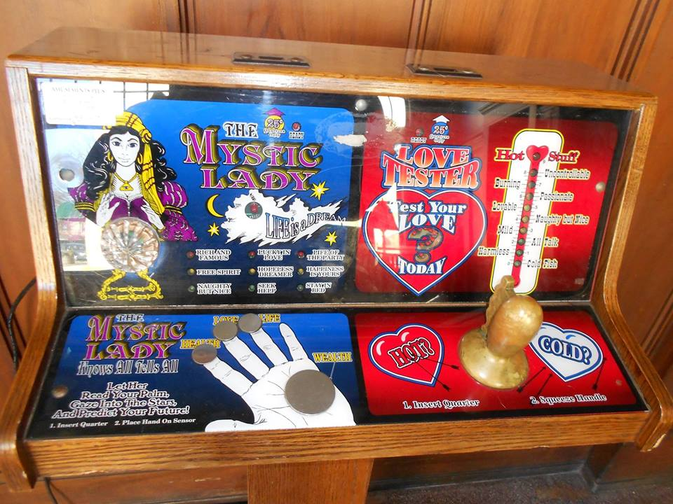 This is an image of a coin-operated electronic amusement device manufactured in the United States in the mid-1990s. The machine purports to tell fortunes and test the operator's romantic talents. The picture was taken in the lobby of a hotel in Auburn, Indiana, USA.